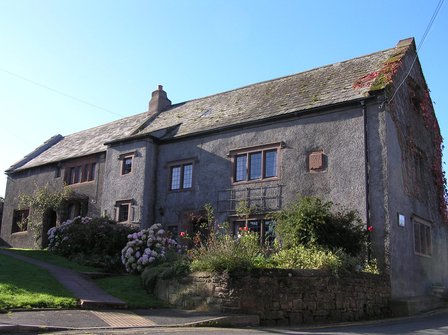 Archbishop Grindal's birthplace - St Bees, Cumbria, UK.